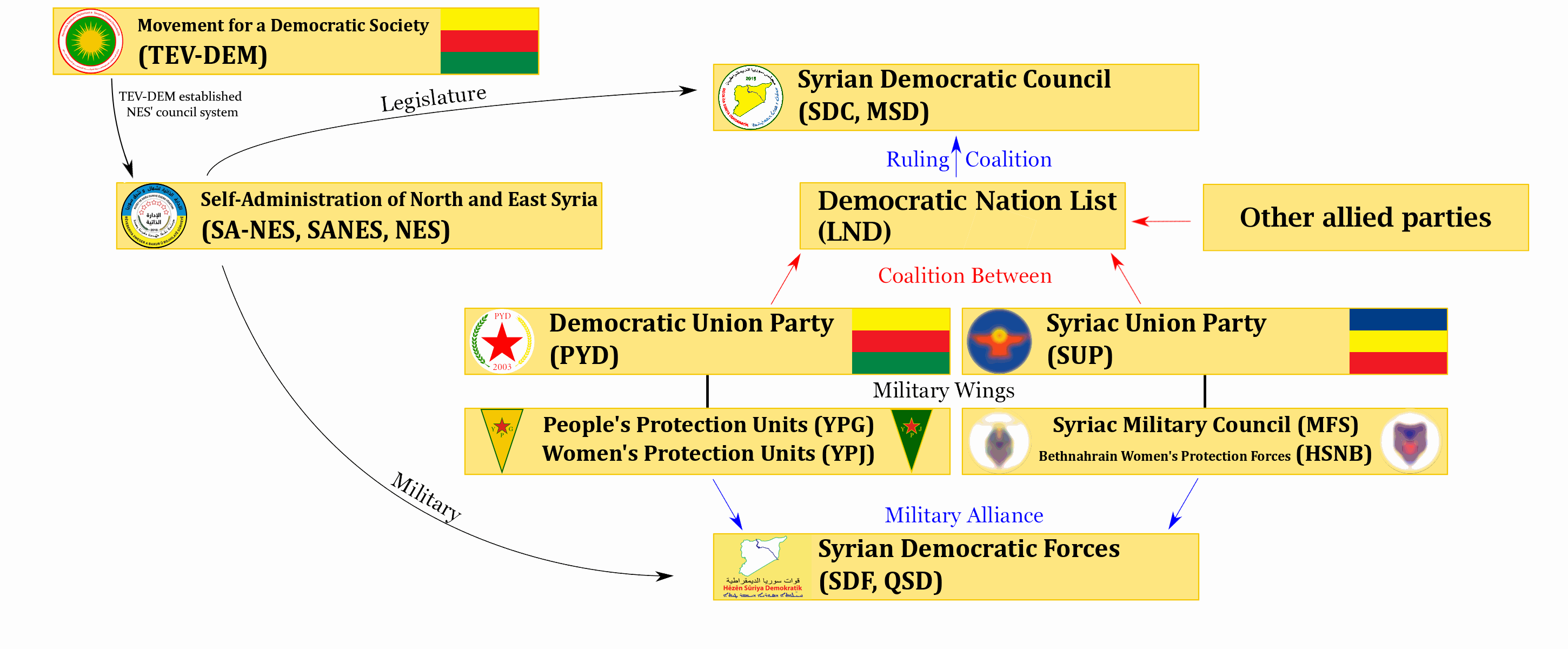 Chart of TEV-DEM parties within the Rojava-Northeast Syrian System